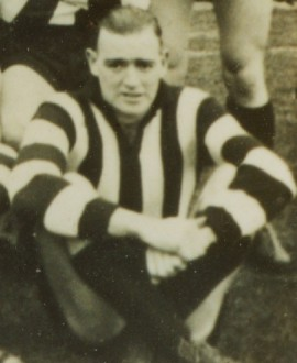 Photo of Les Main in 1941